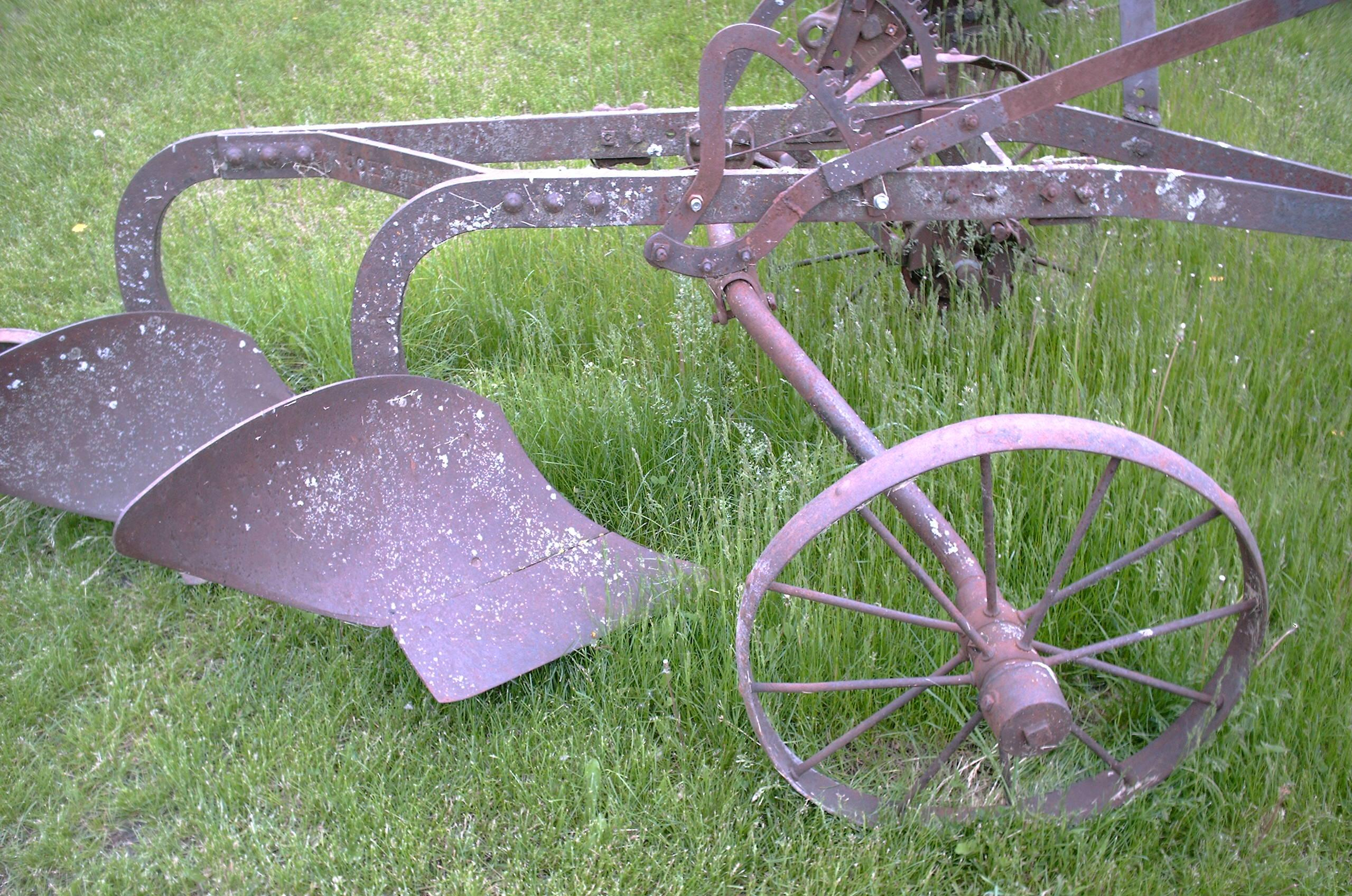 An old plough on a farm in northern Iowa, USA.